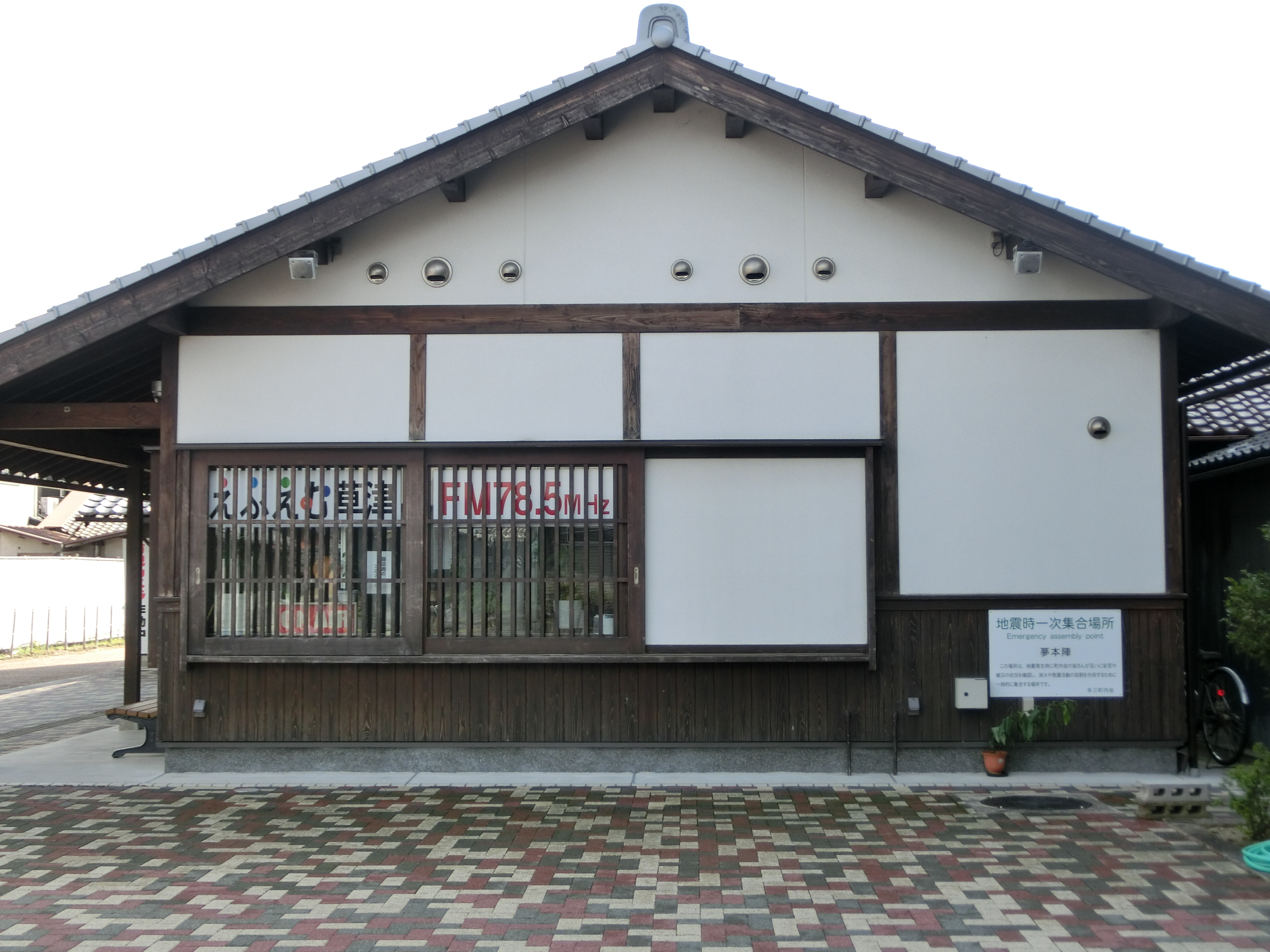 Kusatsu Yume Honjin